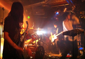 Melt Banana live in Hamburg/Germany, October 2010